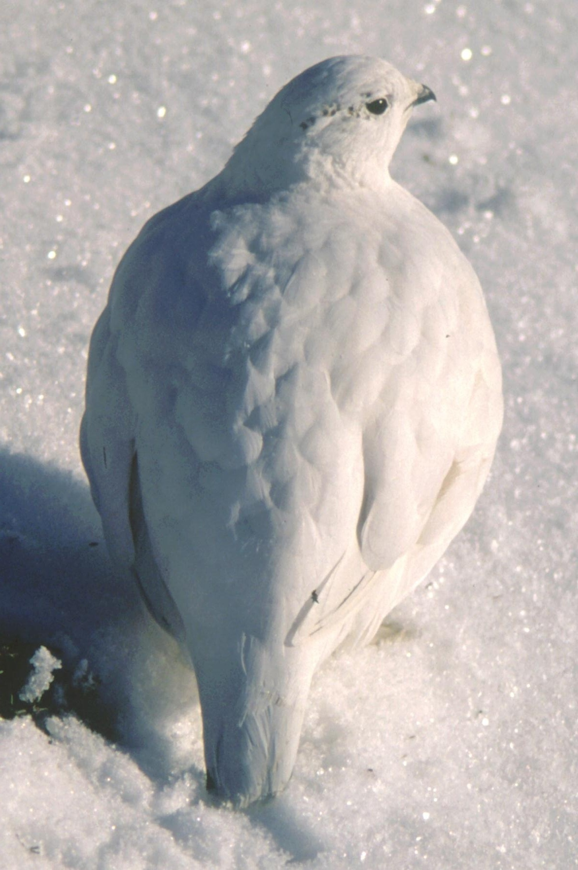 Rock Ptarmigan(Lagopus muta japonica, Lagopus mutus japonicus), female with winter fether in Mount Kogouchi, Japan.